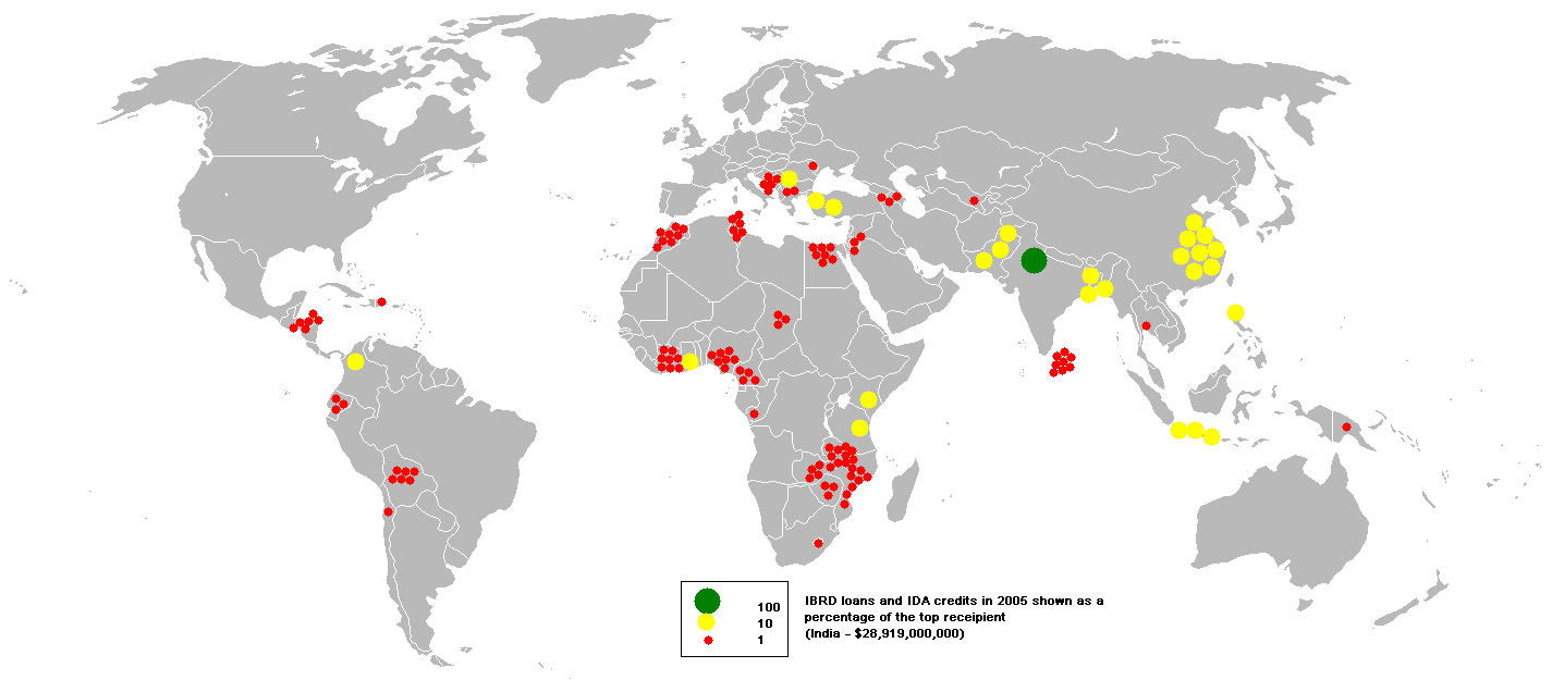 This bubble map shows the global distribution of IBRD loans and IDA credits in 2005 as a percentage of the top receipient (India - $28,919,000,000). This map is consistent with incomplete set of data too as long as the top producer is known. It resolves the accessibility issues faced by colour-coded maps that may not be properly rendered in old computer screens. Data was extracted on 27th June 2007 from (pdf) Based on :Image:BlankMap-World.png